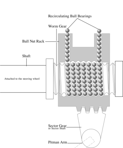 A rough diagram of a Recirculating Ball steering mechanism